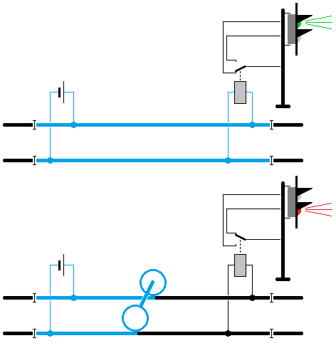 Greatly simplified track circuit giagram. A track current source (left) powers a track relay (right) via rails. The track relay controls a light signal. While the block is clear, the relay stays powered and the signal shows 'Clear' aspect. When a piece of rolling stock occupies the block, its wheelsets short the rails allowing the current to bypass the relay which switches the signal to 'Stop'.